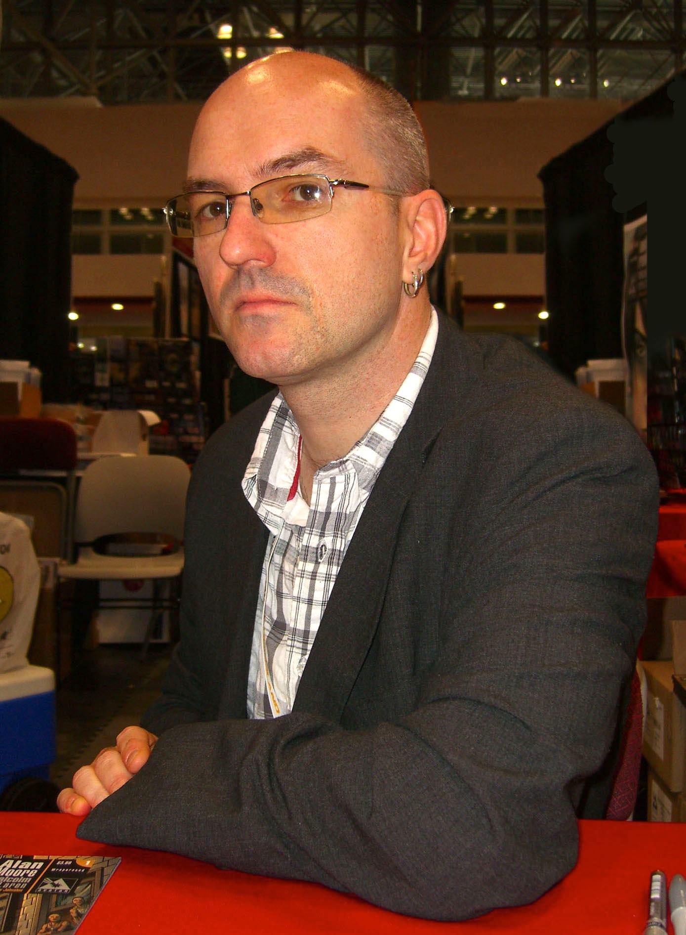 Comics creator Antony Johnston on Day 2 of the 2012 New York Comic Con, Friday October 12, 2012 at the Jacob K. Javits Convention Center in Manhattan. This photo was created by Luigi Novi. It is not in the public domain, and use of this file outside of the licensing terms is a copyright violation.